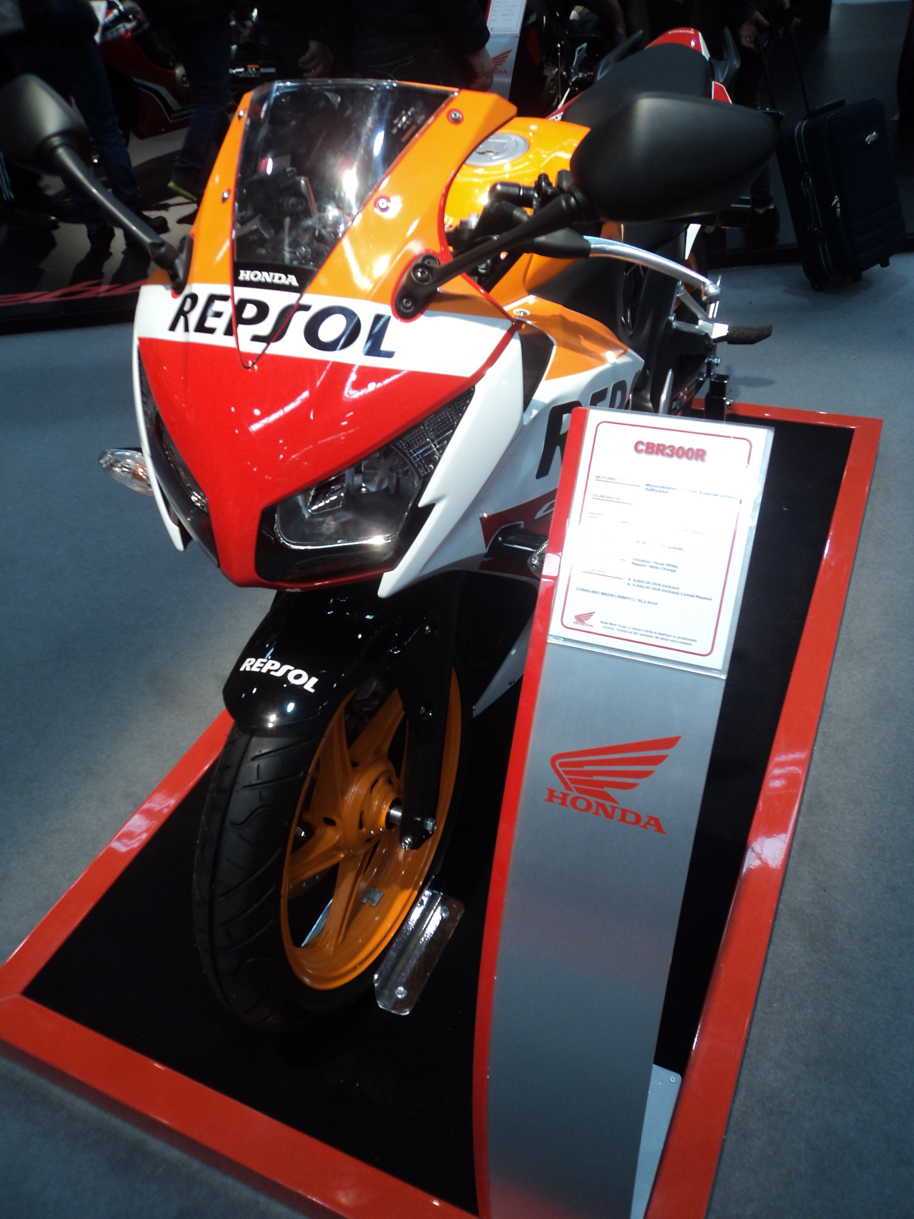 Honda CBR300R@Motodays 2017